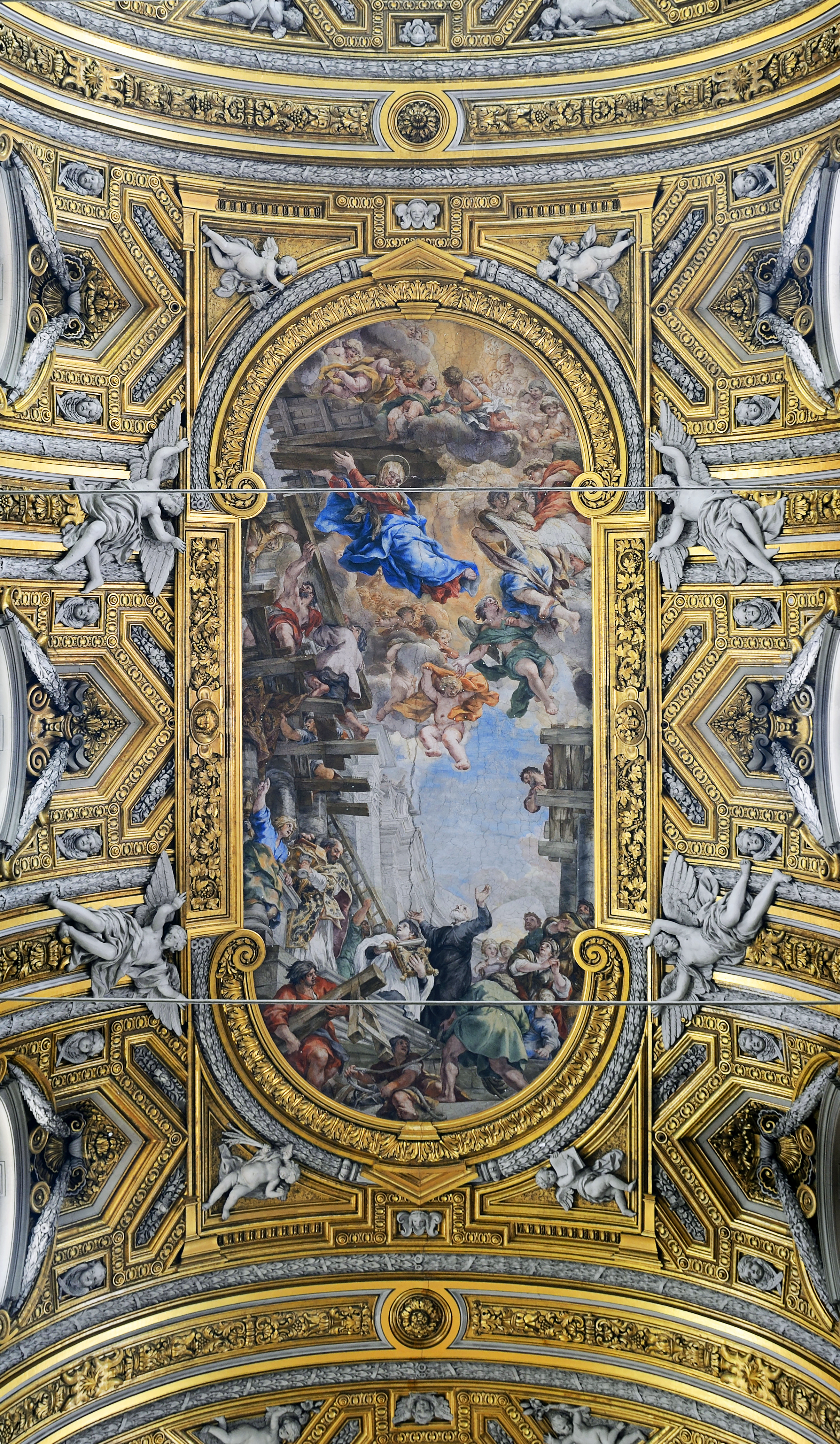 Santa Maria in Vallicella (Rome) - Ceiling